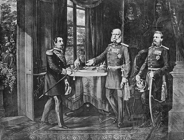 An engraving of the meeting between Kaiser Wilhelm I and Napoleon III at the Chateau de Bellevue to discuss an armistice following the fall of Sedan during the Franco-Prussian War on 2 September 1870 at Donchery, France.